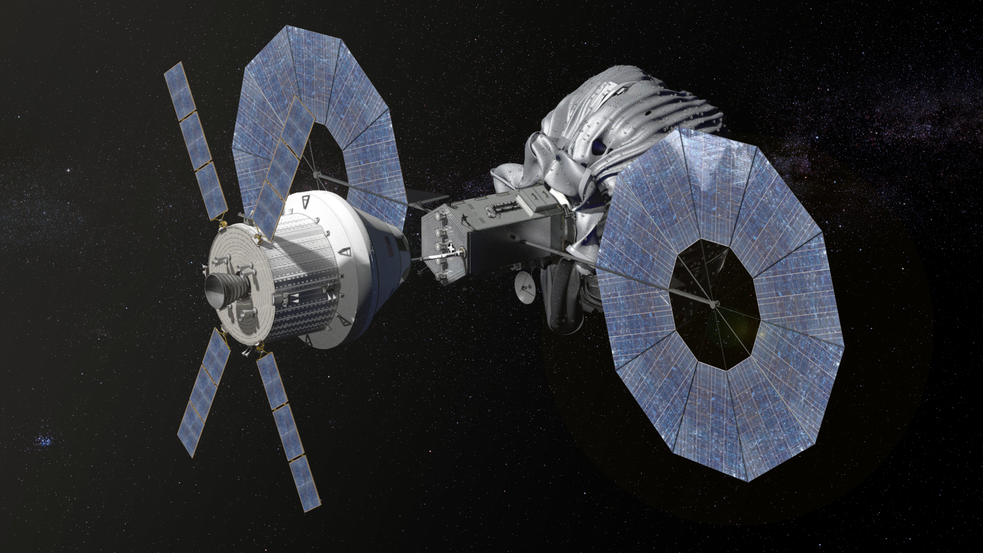 This conceptual image shows NASA’s Orion spacecraft approaching the robotic asteroid capture vehicle. The trip from Earth to the captured asteroid will take Orion and its two-person crew an estimated nine days.